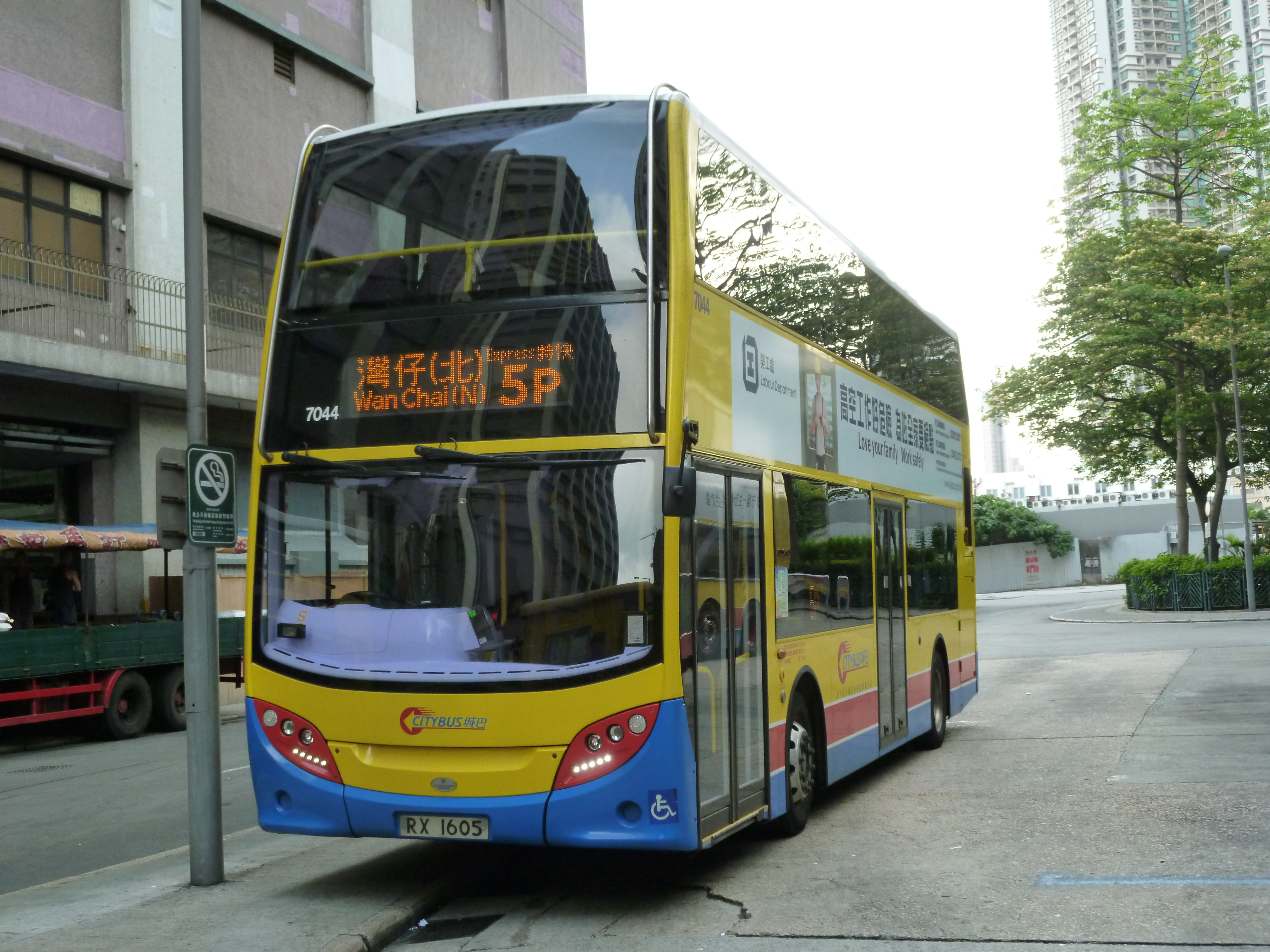 Citybus Route 5P (last ride)中文（香港）: 城巴5P線 (2015年5月9日, 堅尼地城西寧街總站開出的最後一班車)